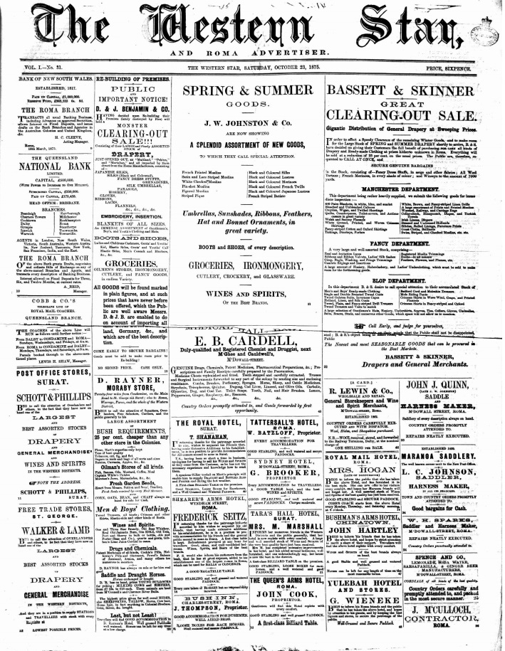 This is the front page of the Western Star and Roma Advertiser, a Queensland newspaper.